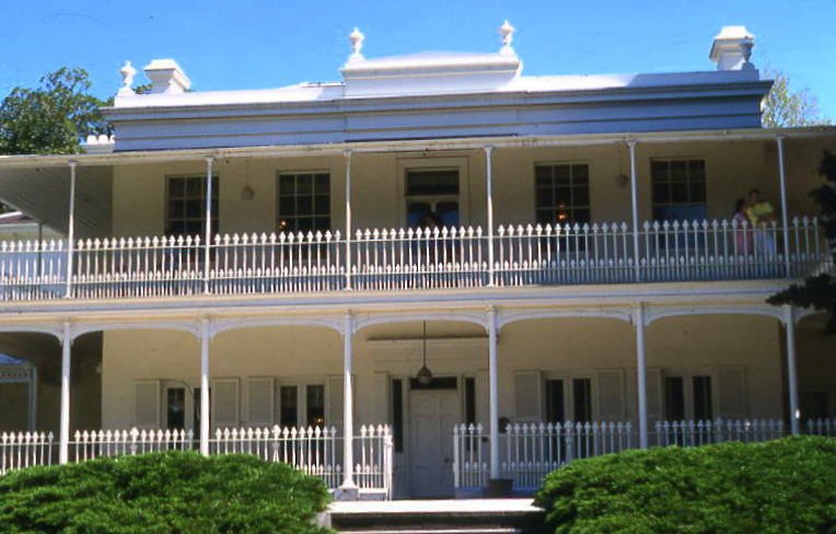 Como, Melbourne, Australia, built by Charles Armytage, ancestor of Samantha Armytage (image has been altered to eliminate tilt, 2014-6-26, by User:Sardaka)